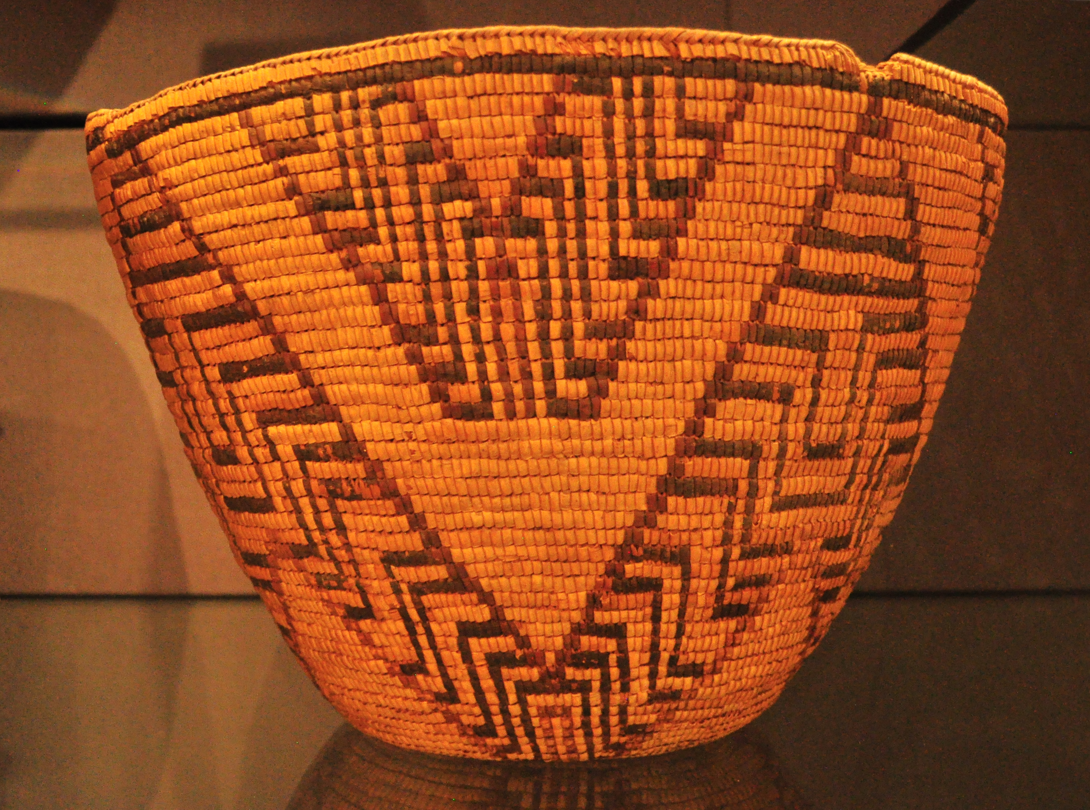 Tulalip Tribes Hibulb Cultural Center, Tulalip, Washington. Watertight cedar basket c. 1920.